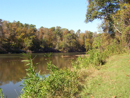 Tallapoosa River at Horseshoe_Bend, near Alexander City, Alabama.